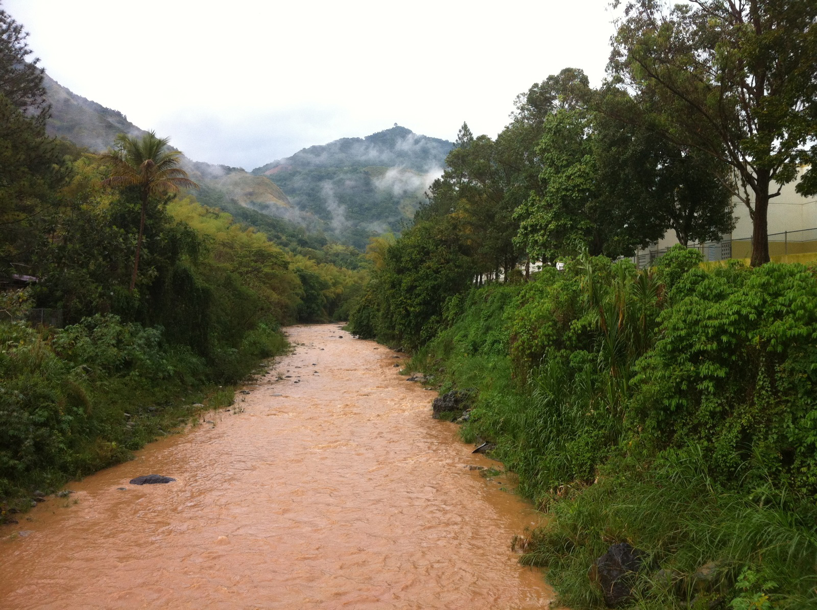 Rio Grande de Jayuya after a downpour. Looking west